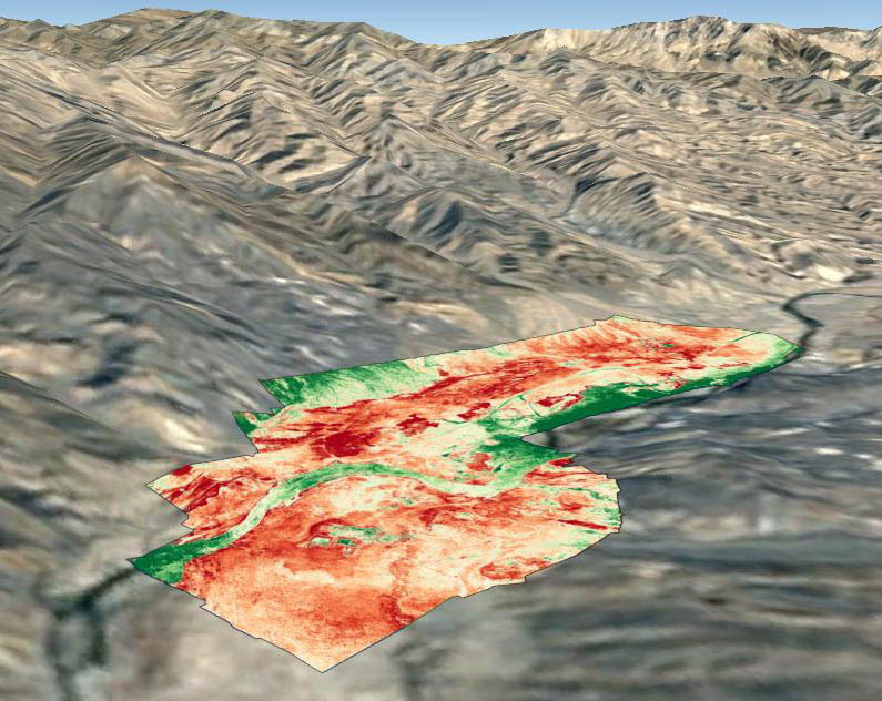 Монгол: Prepared by Numan-Altai LLC